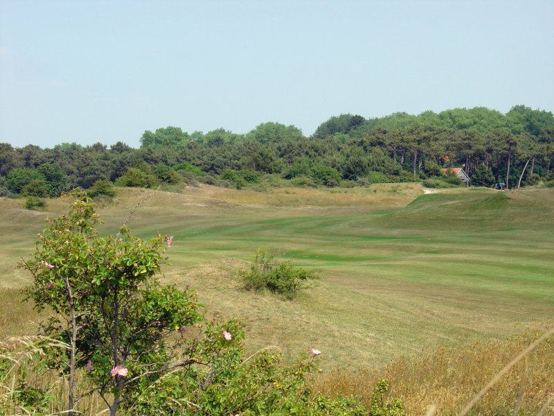 Royal Zoute Golf Club, links course